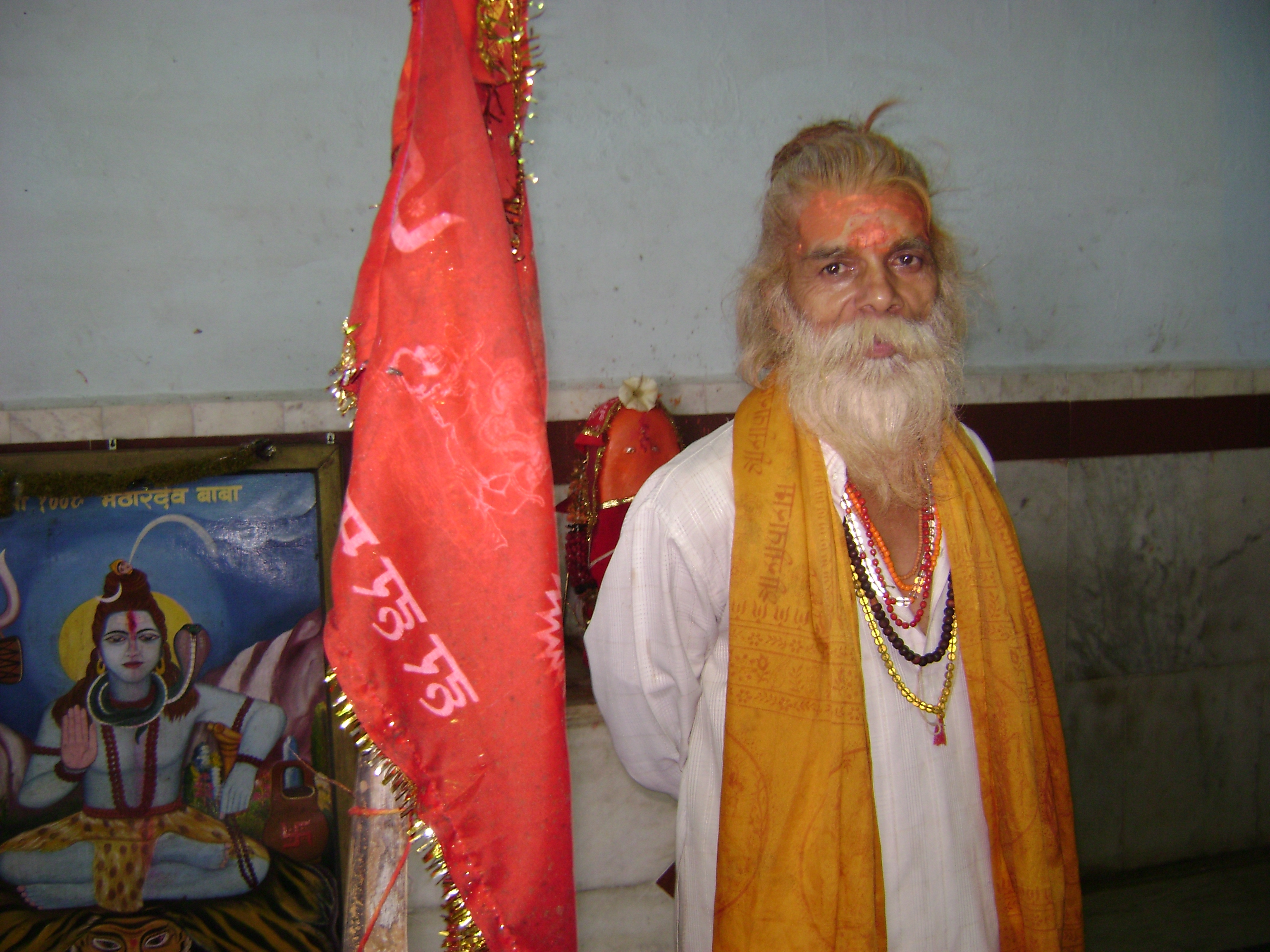 The resident priest at Mathardev temple